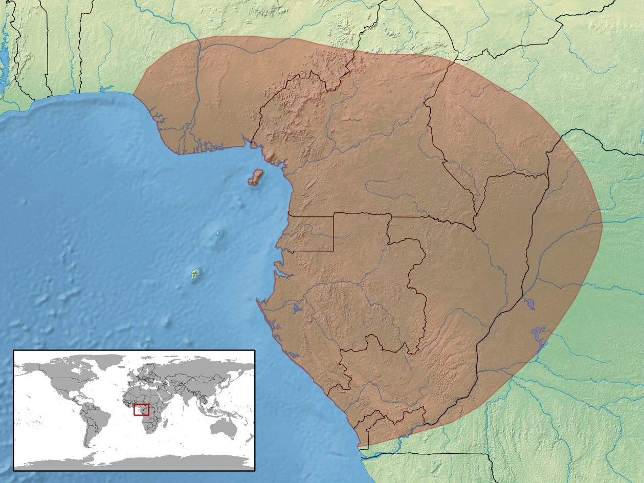 geographic distribution of Rhampholeon spectrum (Native: Cameroon; Equatorial Guinea (Bioko, Equatorial Guinea (mainland)); Gabon; Nigeria)